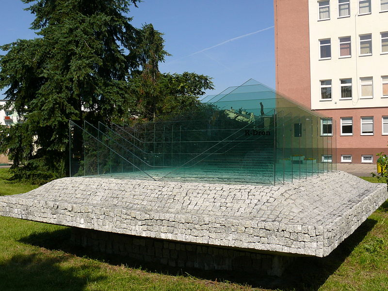 A monument to the K-dron in Kole